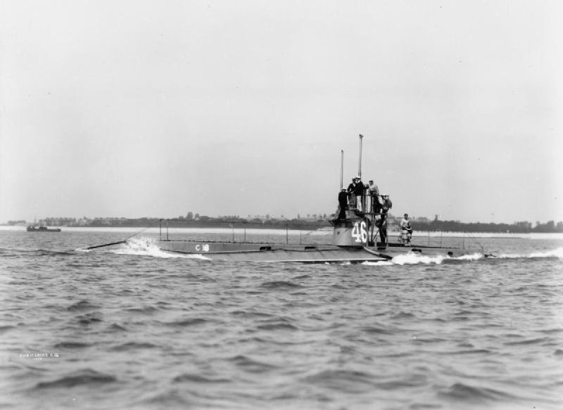 Photograph of British submarine HMS C16.